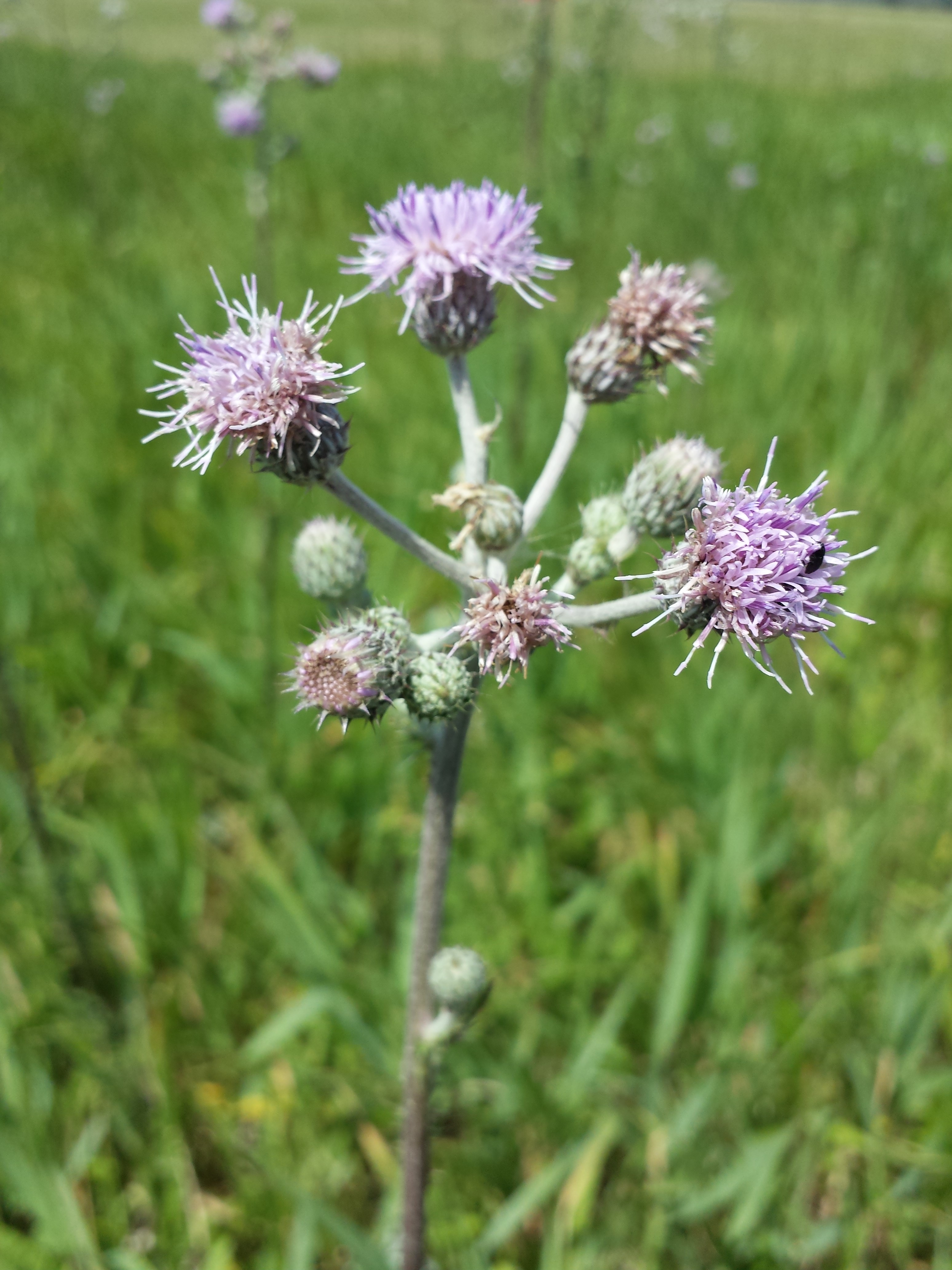 Inflorescence with capitula Taxonym: Cirsium brachycephalum ss Fischer et al. EfÖLS 2008 ISBN 978-3-85474-187-9 Location: Rohrlusswiesen near Gattendorf, district Neusiedl am See, Burgenland, Austria - ca. 130 m a.s.l. Habitat: wet meadows